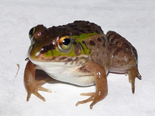 Rana porosa brevipoda, Aichi pref on 2006.